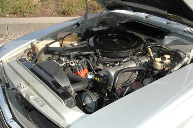 Mercedes-Benz 450SL 1973 Engine Compartment (M117)